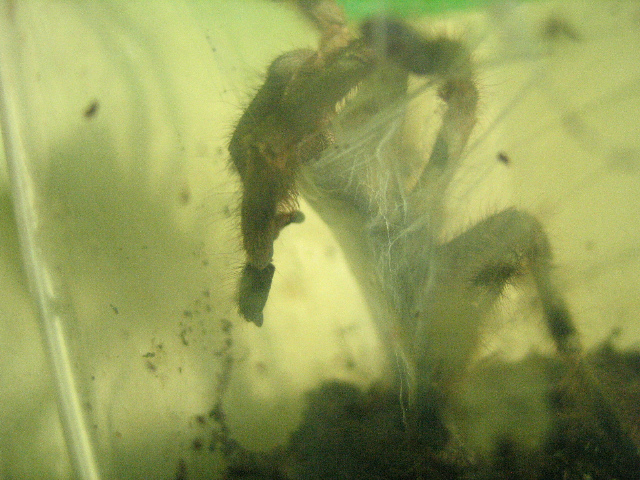 Male Poecilotheria formosa.